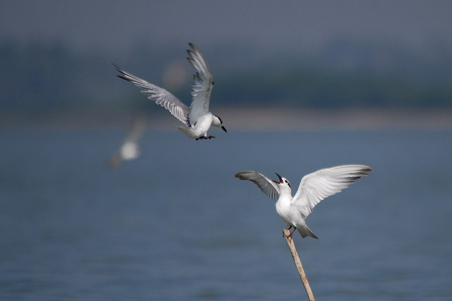 Whiskered Terns - Mudaliarkuppam, India